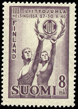 Sport mass exercise of Finnish Workers' Sports Federation